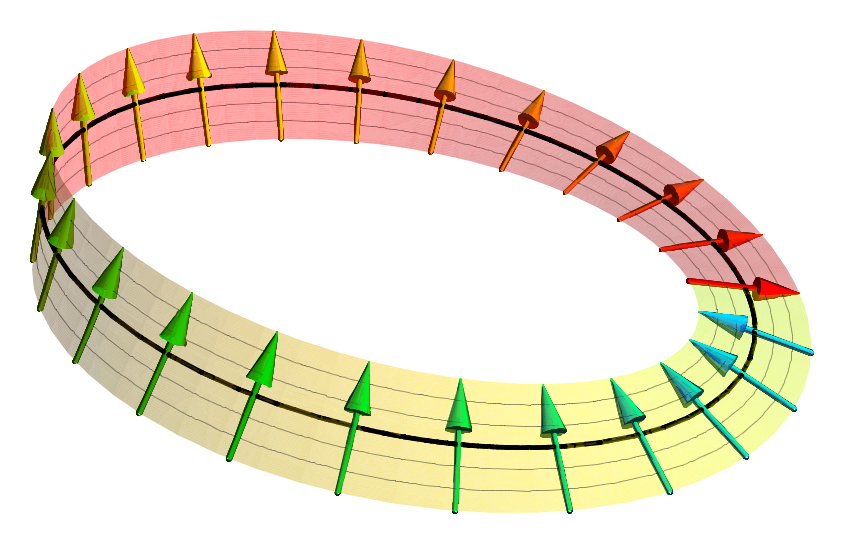 A spinor associated to the conformal group of the circle, exhibiting a sign inversion on a full rotation of the circle through an angle of 2π.